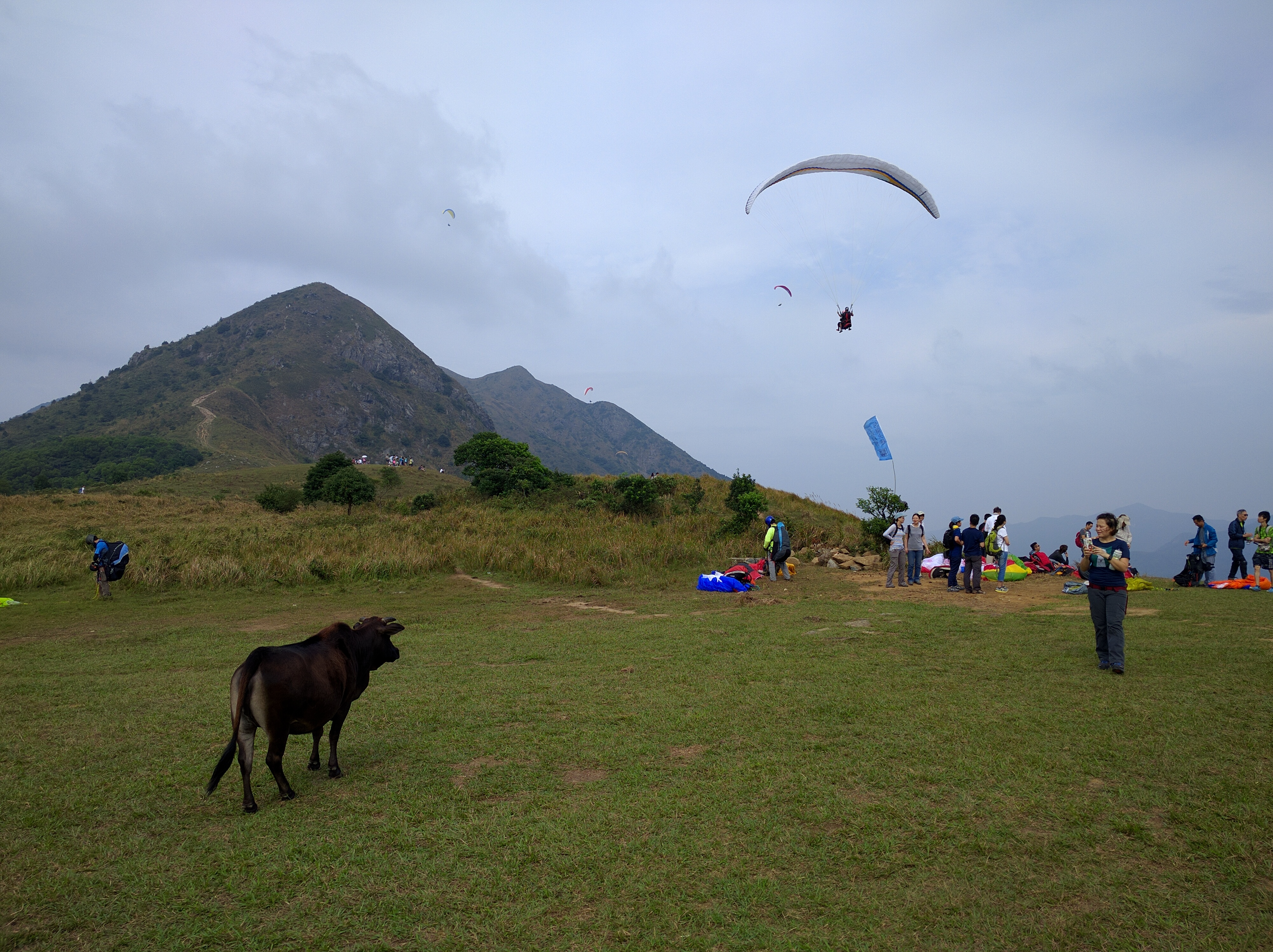 Ngong Ping attracts cows